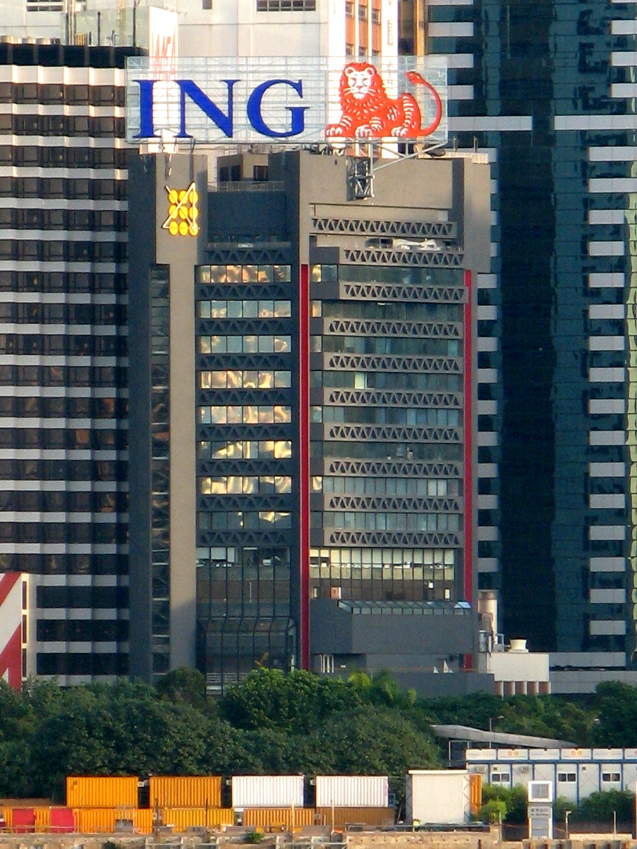 Hong Kong Arts Centre 2008